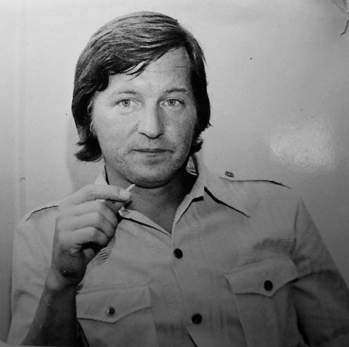 A picture of Hannu Ylitalo, from the backside of "Ruotsalaisten maa", ISBN 951-26-0144-3 (sid.), 951-26-0145-1 (nid.)